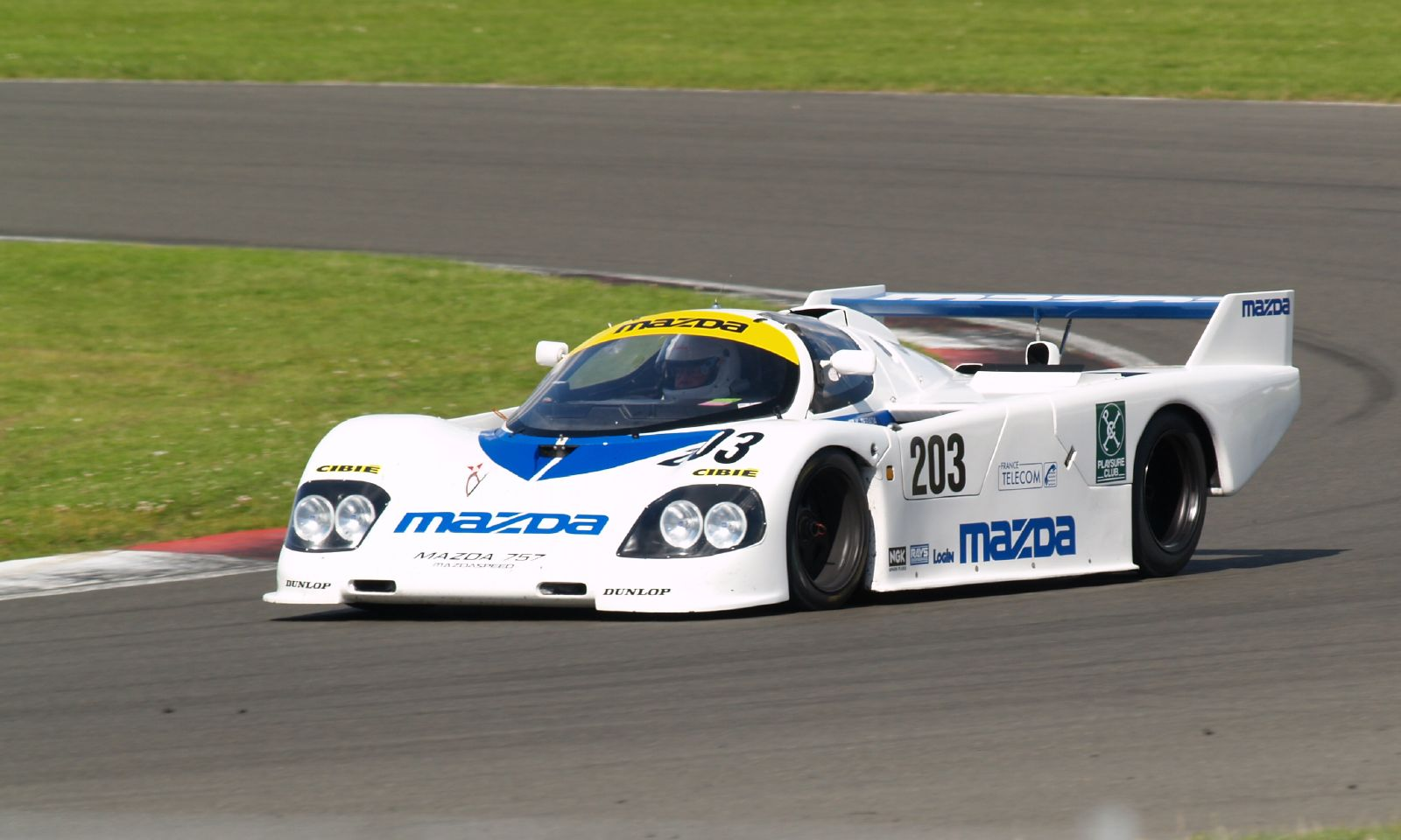 A Mazda 757 at the Silverstone Classic